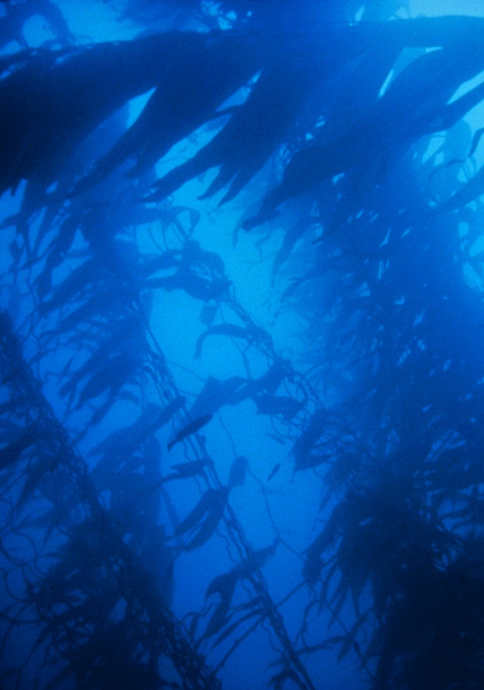 Giant kelp, an important fisheries habitat can grow as much as two feet a day in depths at up to 150 feet. Baja, California.